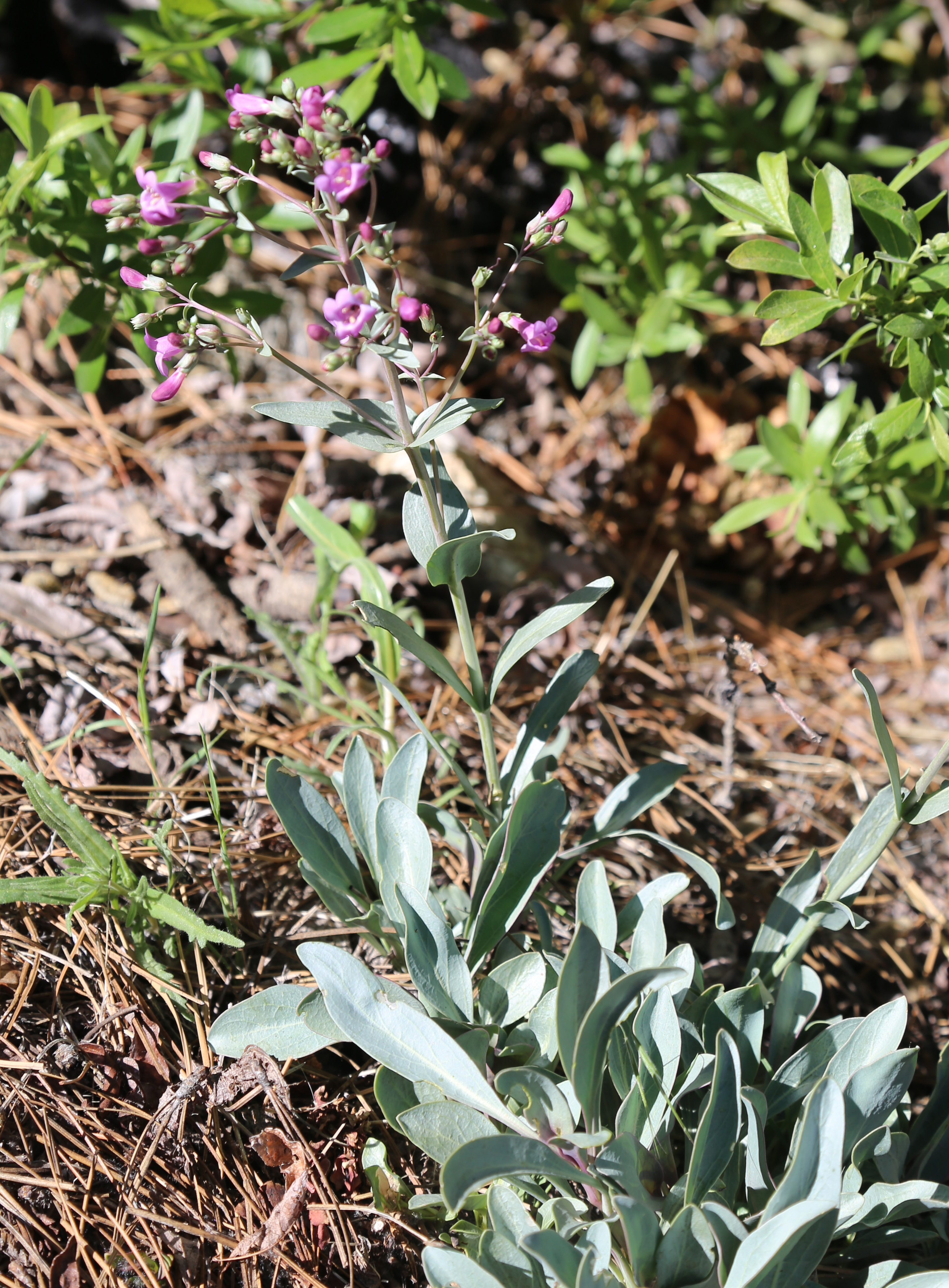 Owens Valley penstemon (Penstemon patens), plant with large base of gray-green leaves and a stem with many deep-pink flowers. At 6,200 ft (1,900 m) on west side of Lower Rock Creek, MonCounty, California, in the Eastern Sierra Nevada.